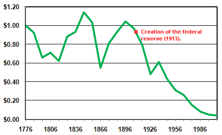 Excel chart made with Data from